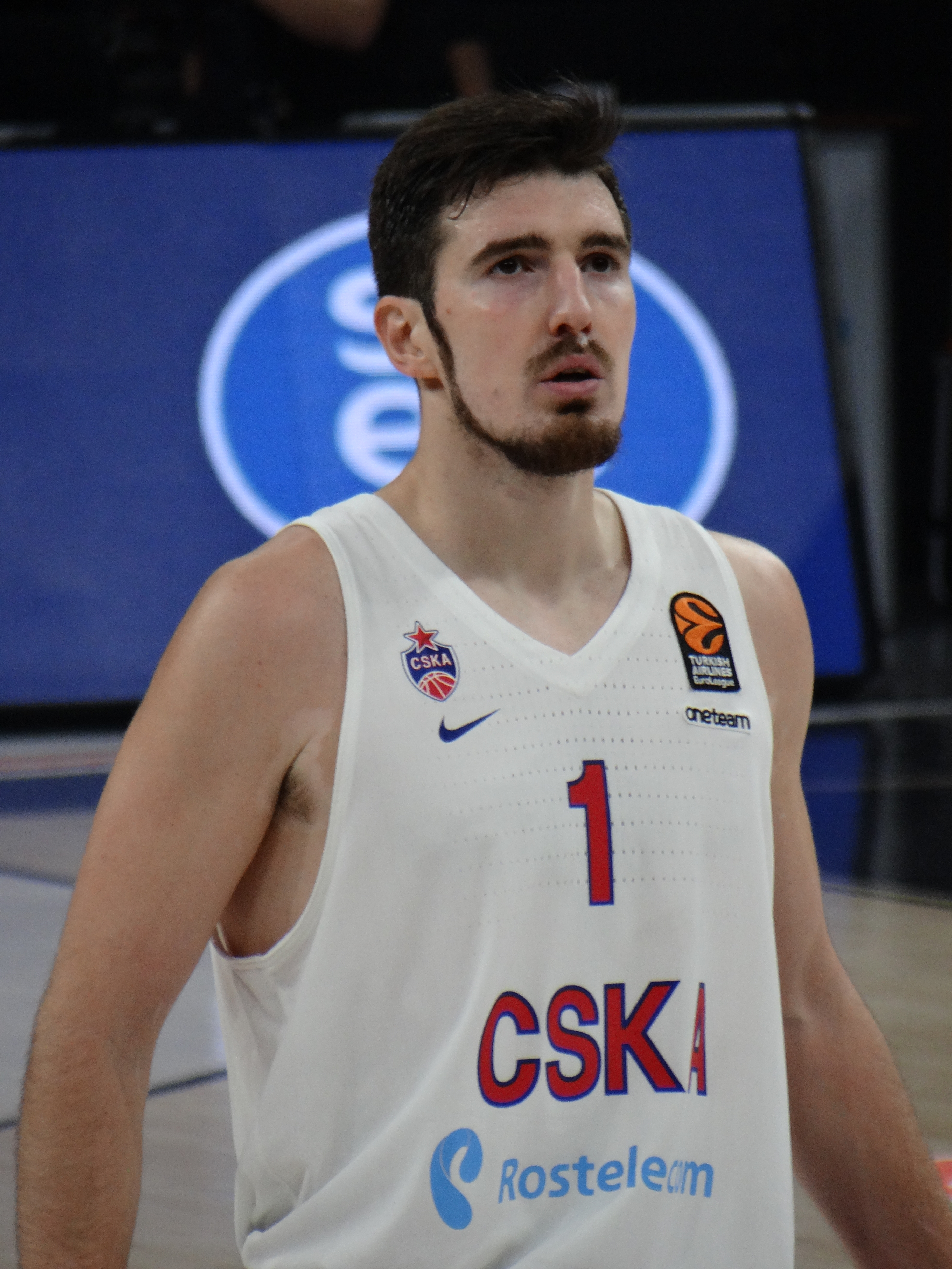 Nando de Colo 1 PBC CSKA Moscow 20171027